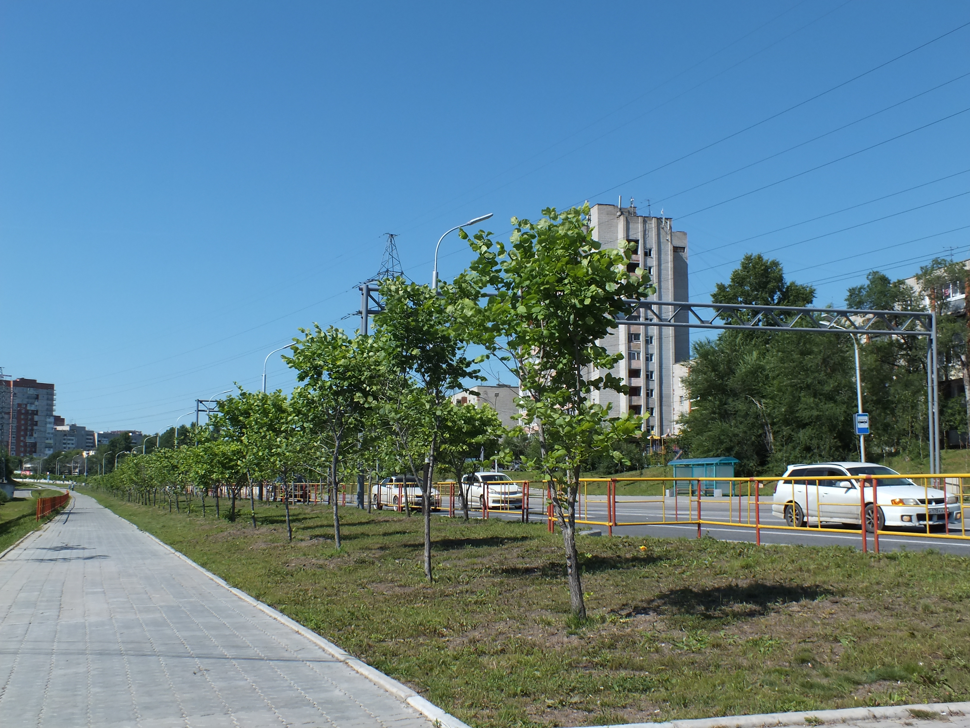 Streets in Khabarovsk